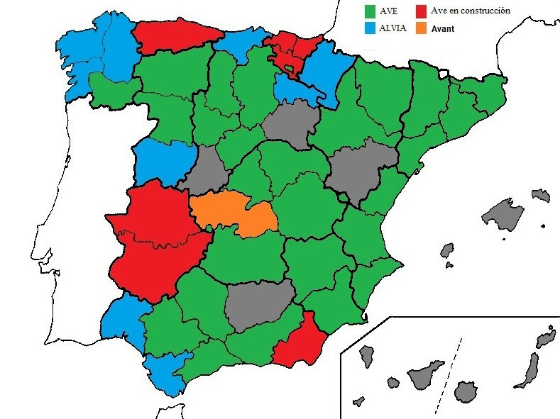 Spanish provinces with AVE train.